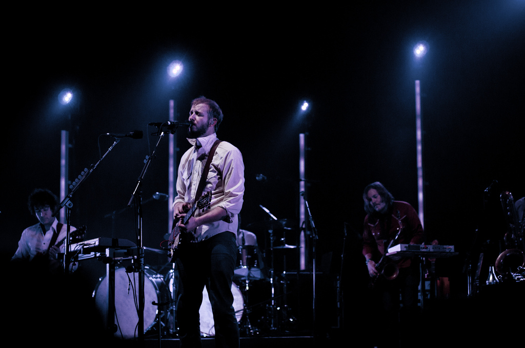 Bon Iver